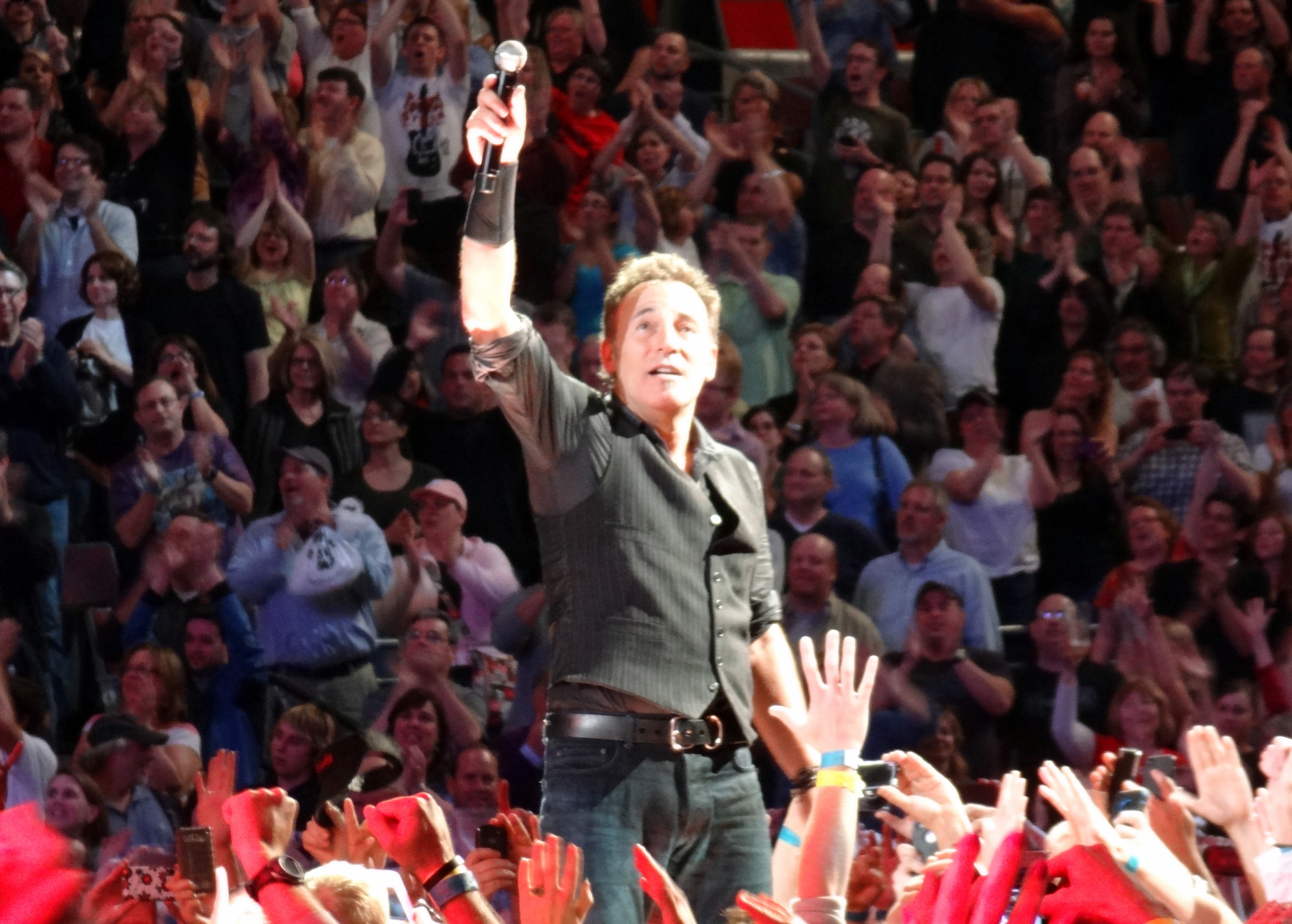 Bruce Springsteen, Palace of Auburn Hills, Detroit , 4/12 They weren't allowing cameras at the event, so we had to sneak in a few pictures. Pretty difficult when you're in front row and a security guy standing right in front of you